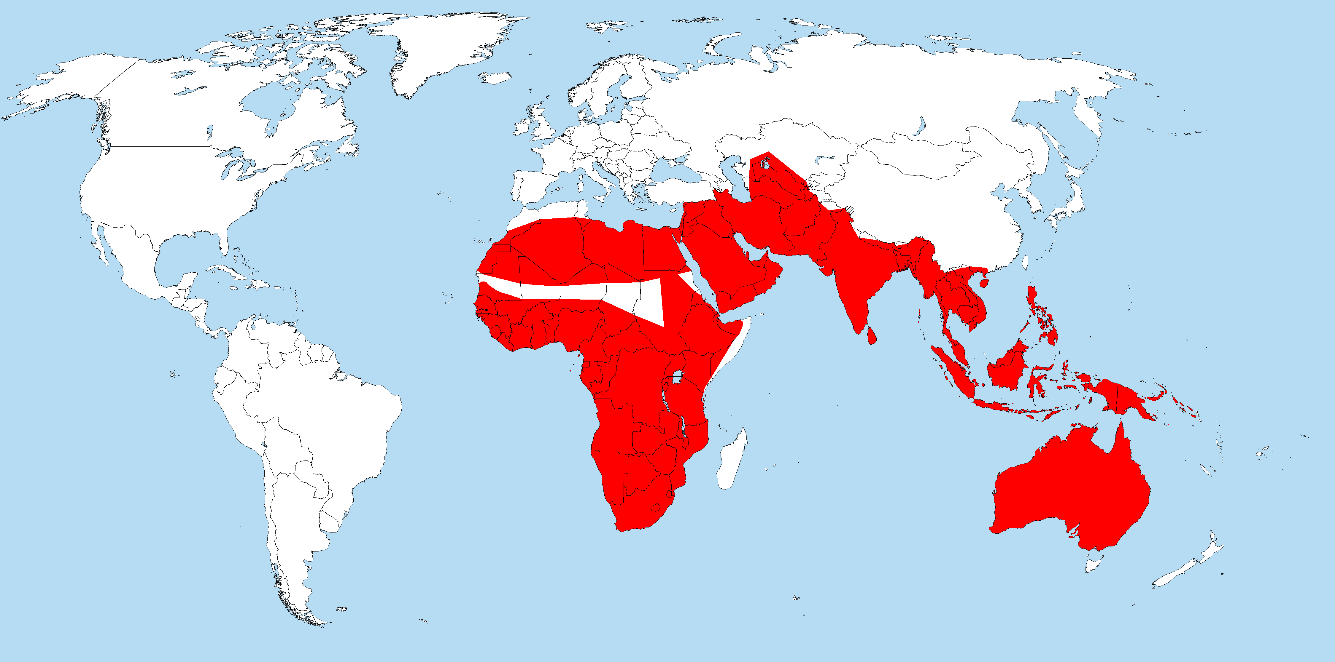 A map showing the distribution of monitor lizards (Varanus) today. Might be slightly inaccurate, as this map was hand-drawn with MS Paint. Distribution data was compiled from: Species accounts in E. R. Pianka & D. R. King (Hrsg.): Varanoid Lizards of the World. Indiana University Press, Bloomington & Indianapolis. ISBN 0253343666 Ziegler, T.; A. Schmitz, A. Koch & W. Böhme (2007): A review of the subgenus Euprepiosaurus of Varanus (Squamata: Varanidae): Morphological and molecular phylogeny, distribution and zoogeography, with an identification key for the members of the V. indicus and the V. prasinus species groups. Zootaxa 1472: 1–28